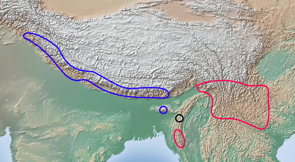 Distribution of Roscoea species based on Ngamriabsakul, C.; Newman, M.F.; Cronk, Q.C.B. (2000), "Phylogeny and disjunction in Roscoea (Zingiberaceae )", Edinburgh Journal of Botany 57 (1): 39–61, retrieved 2011-10-03 . Himalayan clade in blue, Chinese clade in red. Black circle shows distribution of Roscoea ngainoi, described in 2008 by Mao, A. A.; Bhaumik, M. (2007, published 2008), "Roscoea ngainoi (Zingiberaceae) sp. nov. from Manipur, India", Nordic Journal of Botany 25 (5-6): 299–302